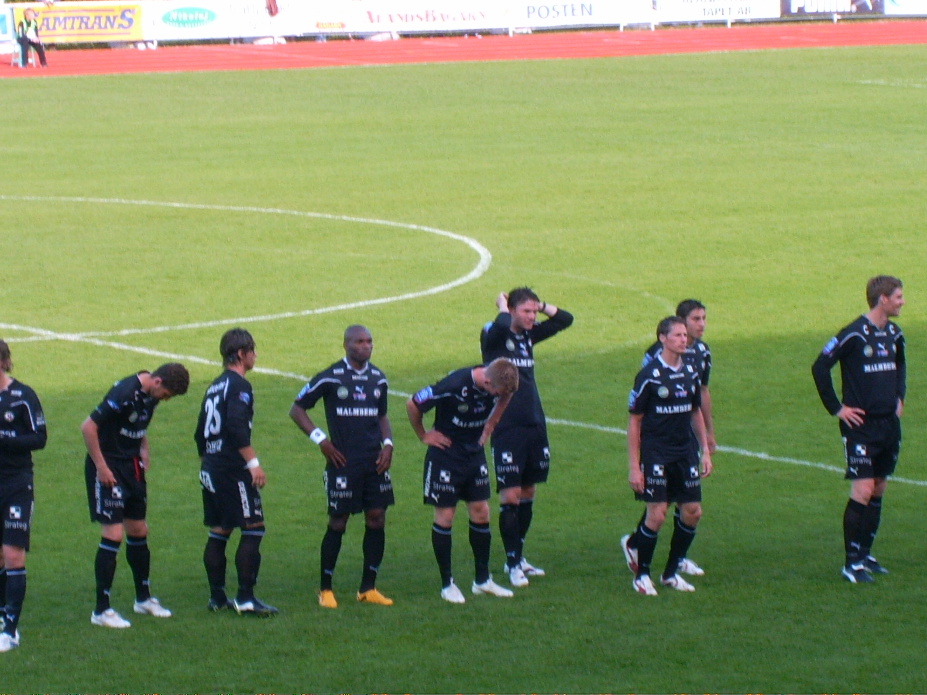 Örebro SK players during the men's soccer friendly game IFK Mariehamn-Örebro SK (2-0) at Mariehamns idrottspark, Åland, Finland 29 June 2010.